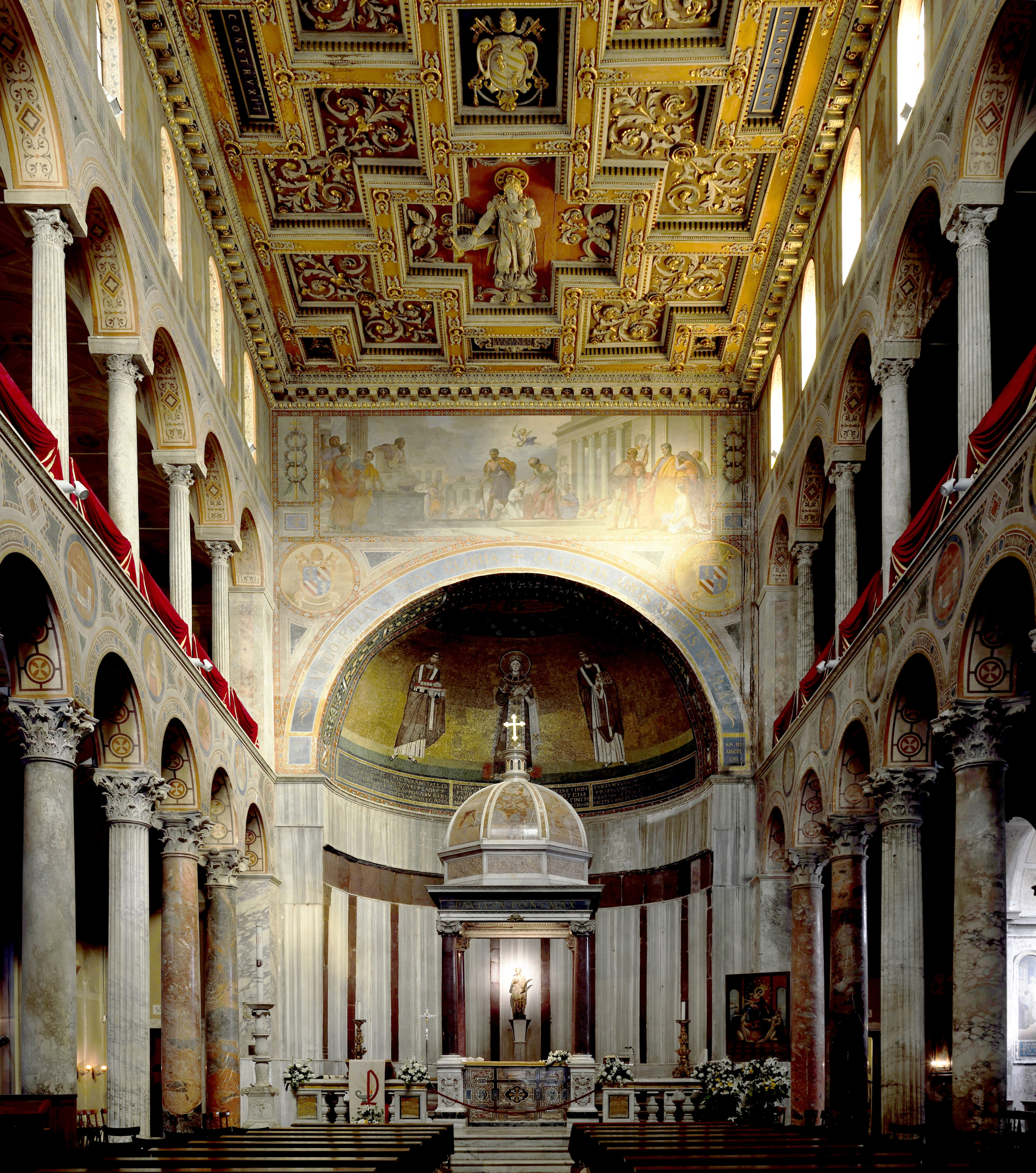 Sant'Agnese fuori le mura (Rome) - Inside